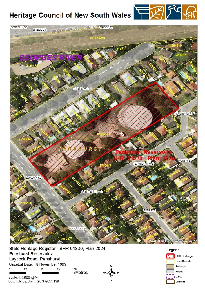 Penshurst Reservoirs: SHR Plan 2024